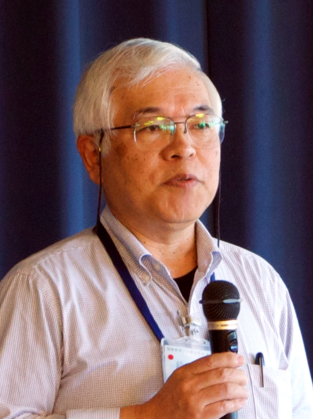 Naoyoshi Suzuki, Professor of the School of Management and Information, University of Shizuoka, and Hiroaki Yuze, Associate Professor of the School of Management and Information, University of Shizuoka, attended the Summer Symposium in Shizuoka 2012 at the Mihoen Hotel in Shizuoka City, Shizuoka Prefecture on August 22, 2012.